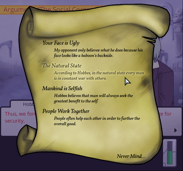 Screenshot from Socrates Jones